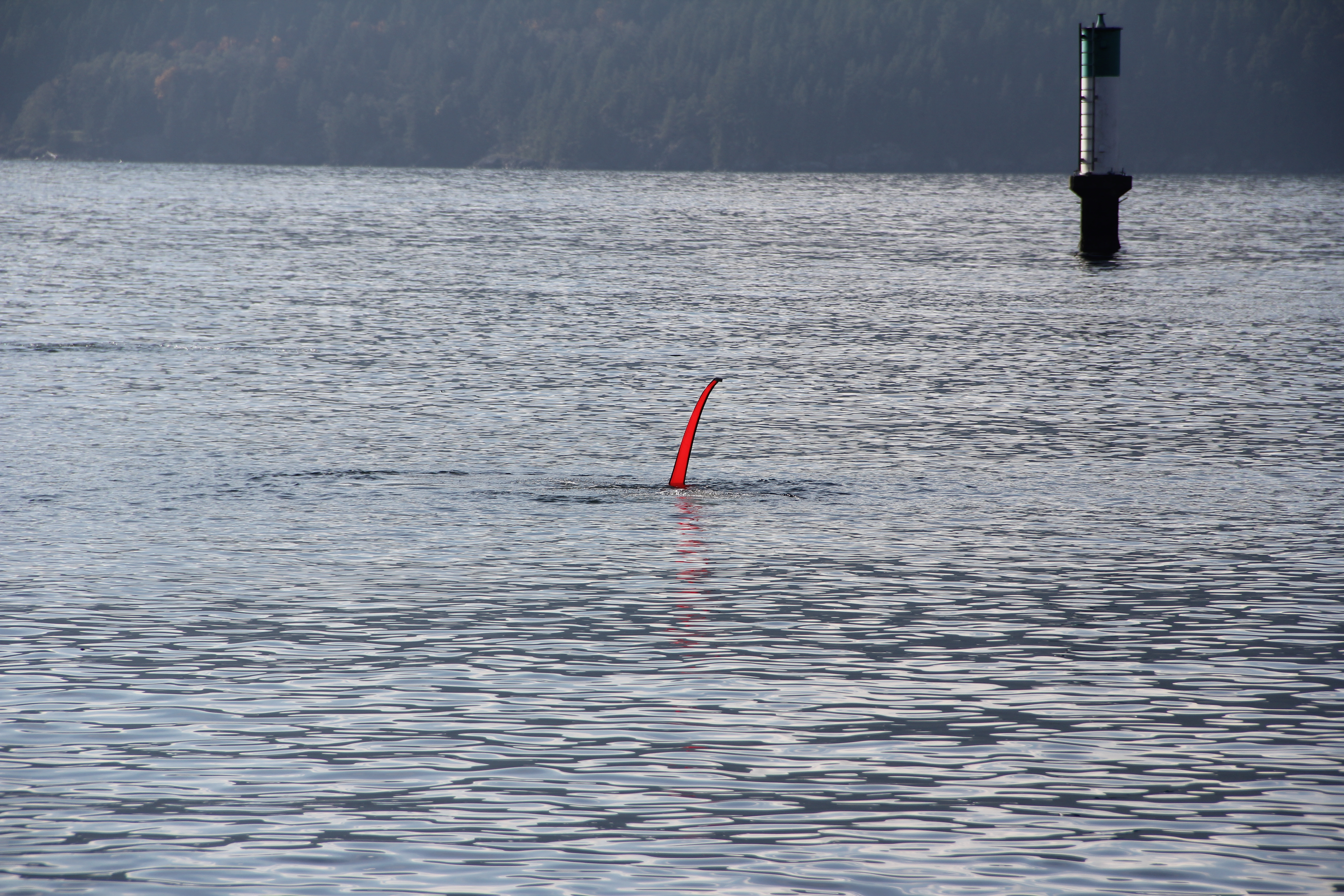 Deployed surface marker buoy at Whytecliff Park, West Vancouver.